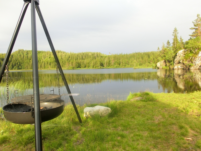 A pond named Bjørgtjønna outside Stadsbygd